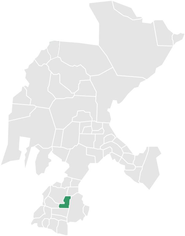 Map of the Municipality of Jalpa in Zacatecas, México.